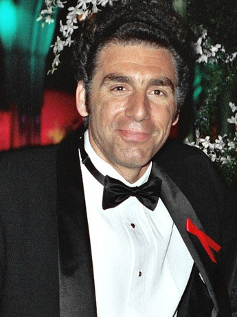 Photo of actor Michael Richards at the 1993 Emmy awards.